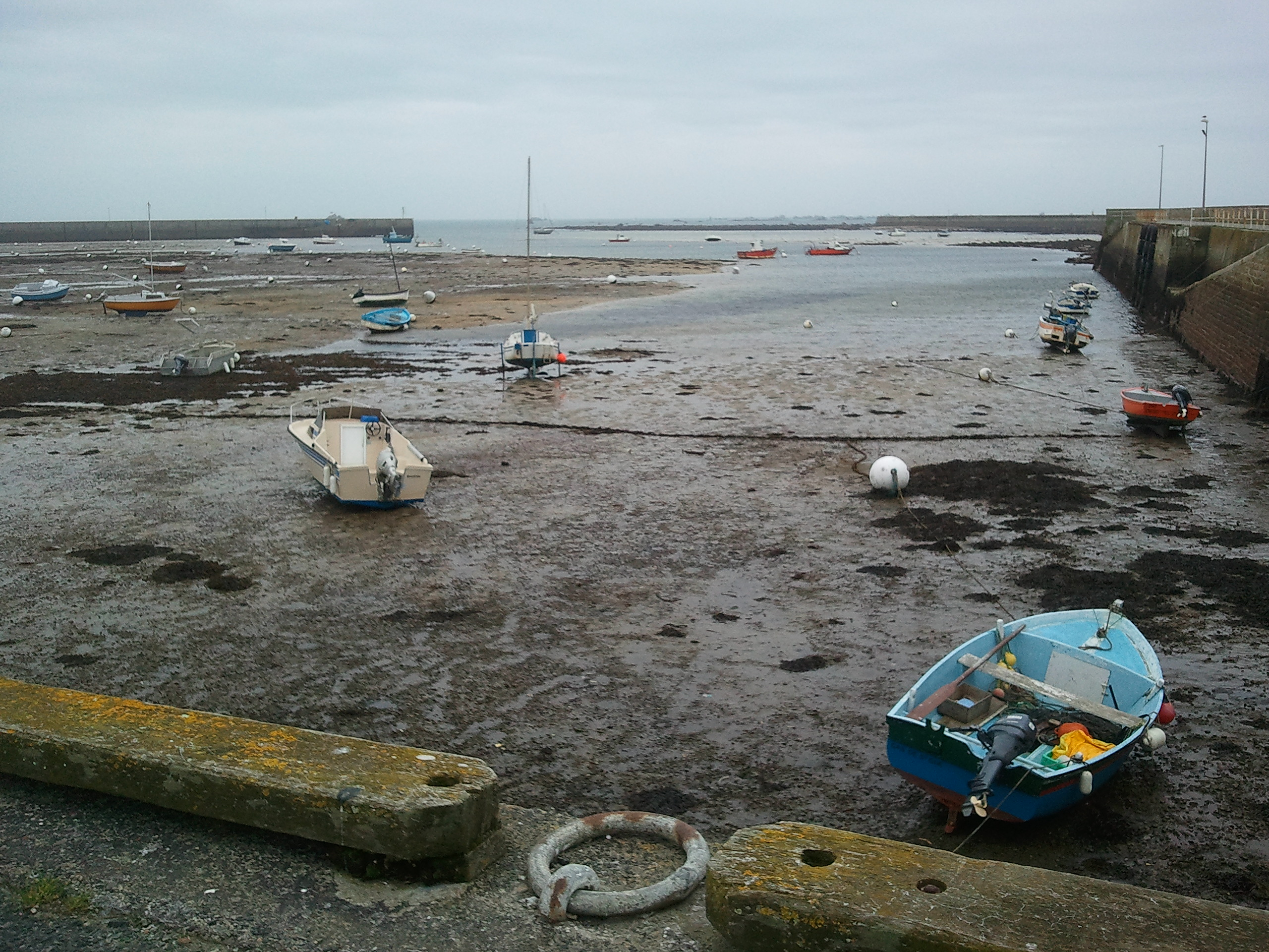 Kérity (Penmarc'h), the harbour, feb 7 2011